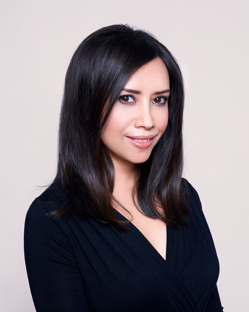 A headshot of author Kia Abdullah